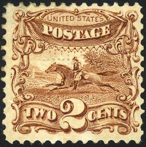 US Stamp: Post_Horse_&_Rider_1869_Issue-2c.jpg